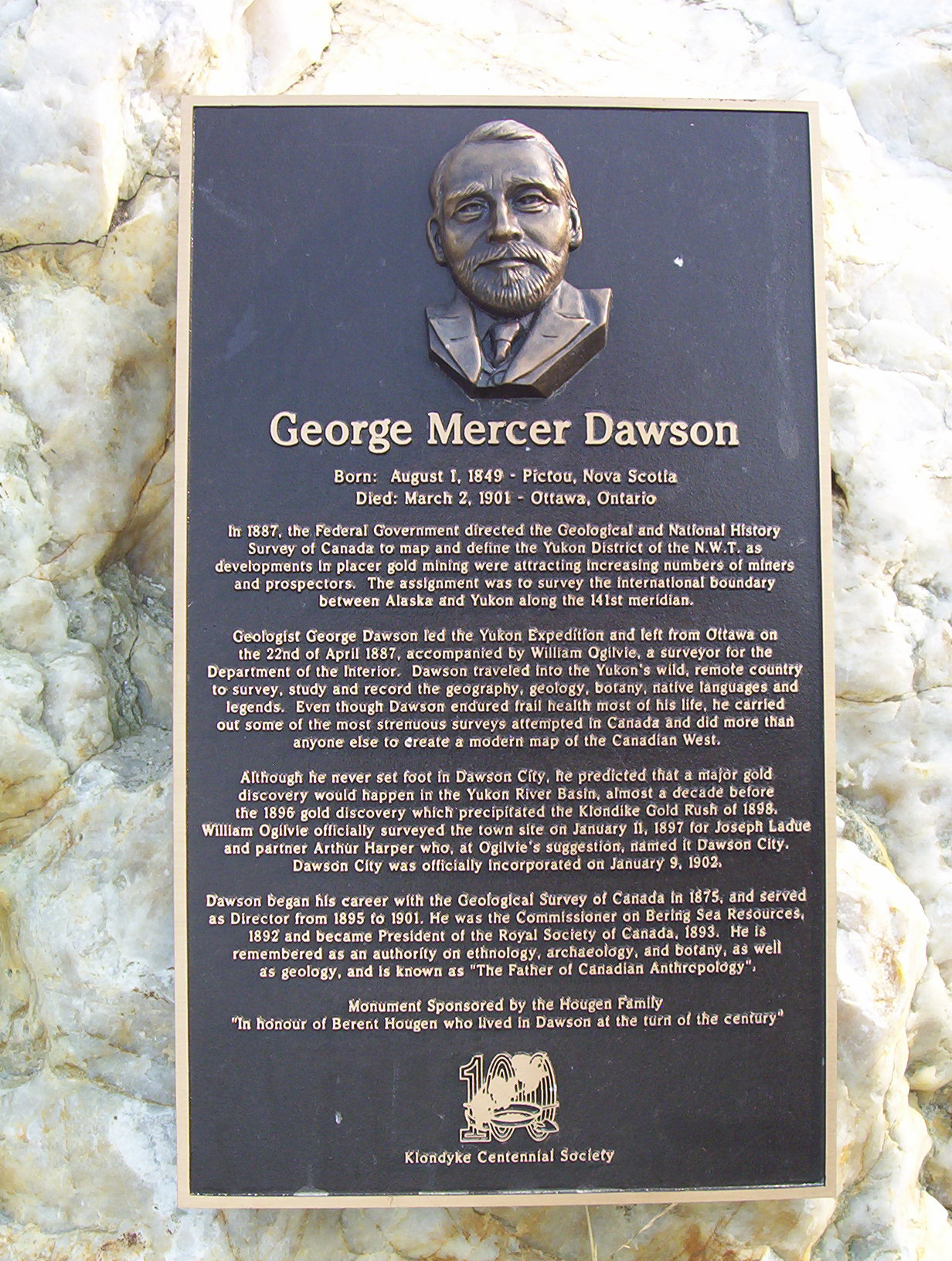 Plaque of George Dawson in Dawson City, Yukon Picture taken on August 10th, 2005 by Janothird